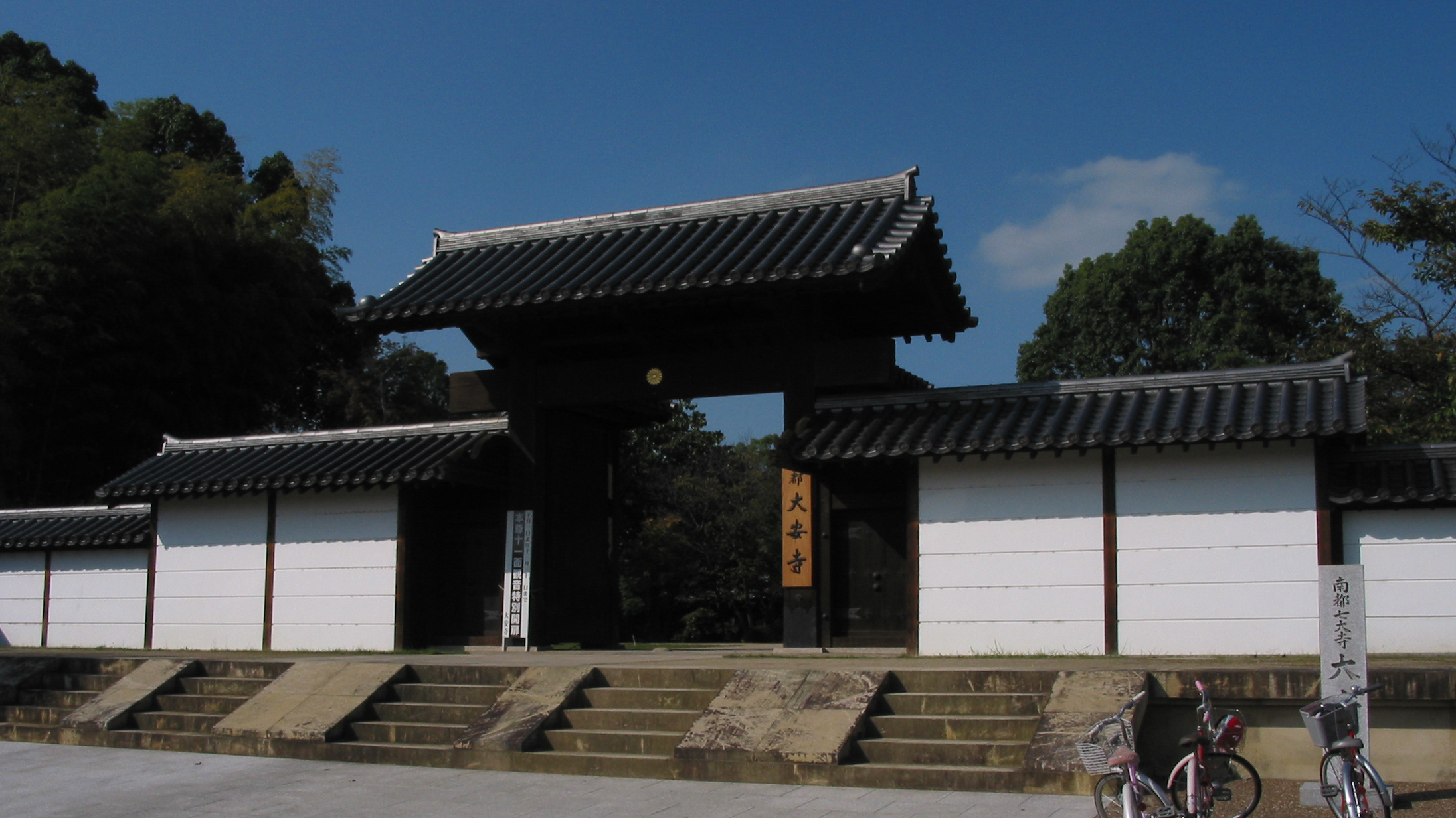 South Gate of Daian-ji at Nara, Nara Pref., Japan. 高野山真言宗別格本山大安寺南門 奈良県奈良市大安寺2丁目で撮影